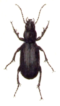 Laemostenus terricola, from Calwer's Käferbuch, Table 6, Picture 20. Taxonomy was updated to 2008, using mostly the sites Fauna Europaea and BioLib. Please contact Sarefo if the determination is wrong!